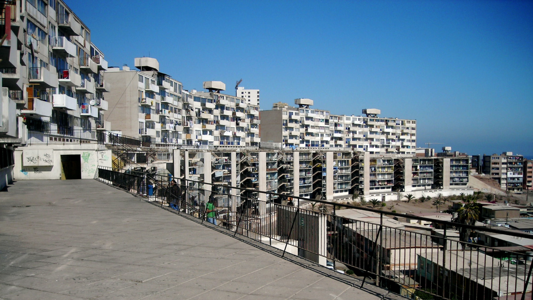 A photograph taken from one of the public terraces of Huanchaca (Curvo) building, designed by architect Ricardo Pulgar San Martin, in Antofagasta, Chile.